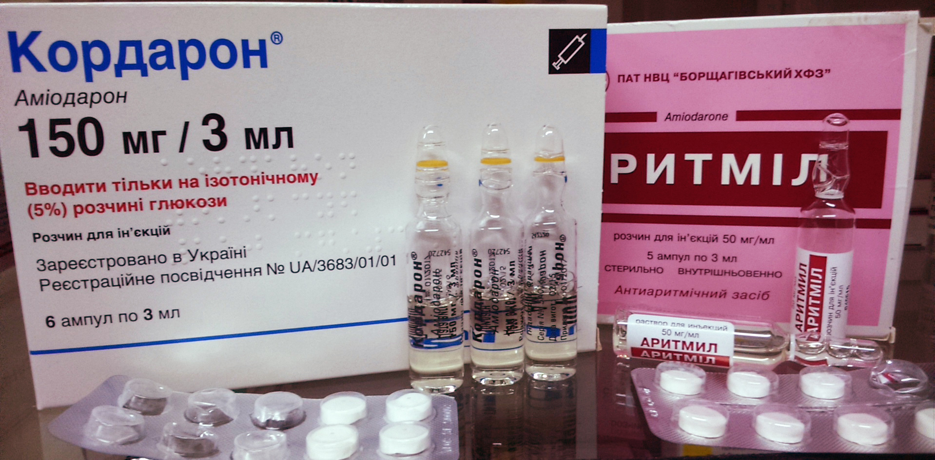 Amiodarone in Ukraine